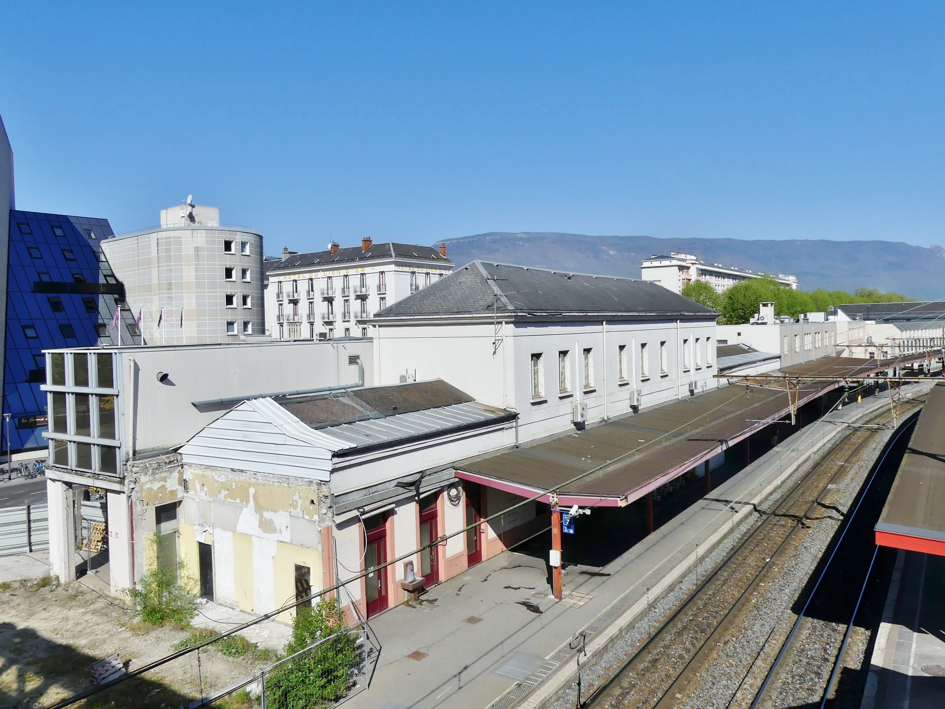 Sight, in 2017, of the historical building of 'Chambéry-Challes-les-Eaux' railway station, before the construction of the new multimodal building, in Chambéry, Savoie, France.